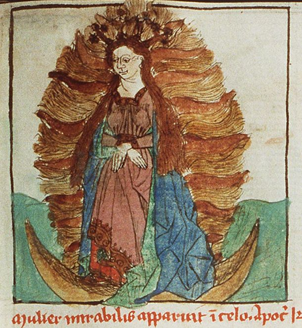 A pregnant woman clothed with the Sun and standing on the Moon; c. 1450; coloured pen drawing; from the Speculum humanae salvationis; manuscript MMW 64 G4 11; Meermanno-Westreenianum Museum, The Hague